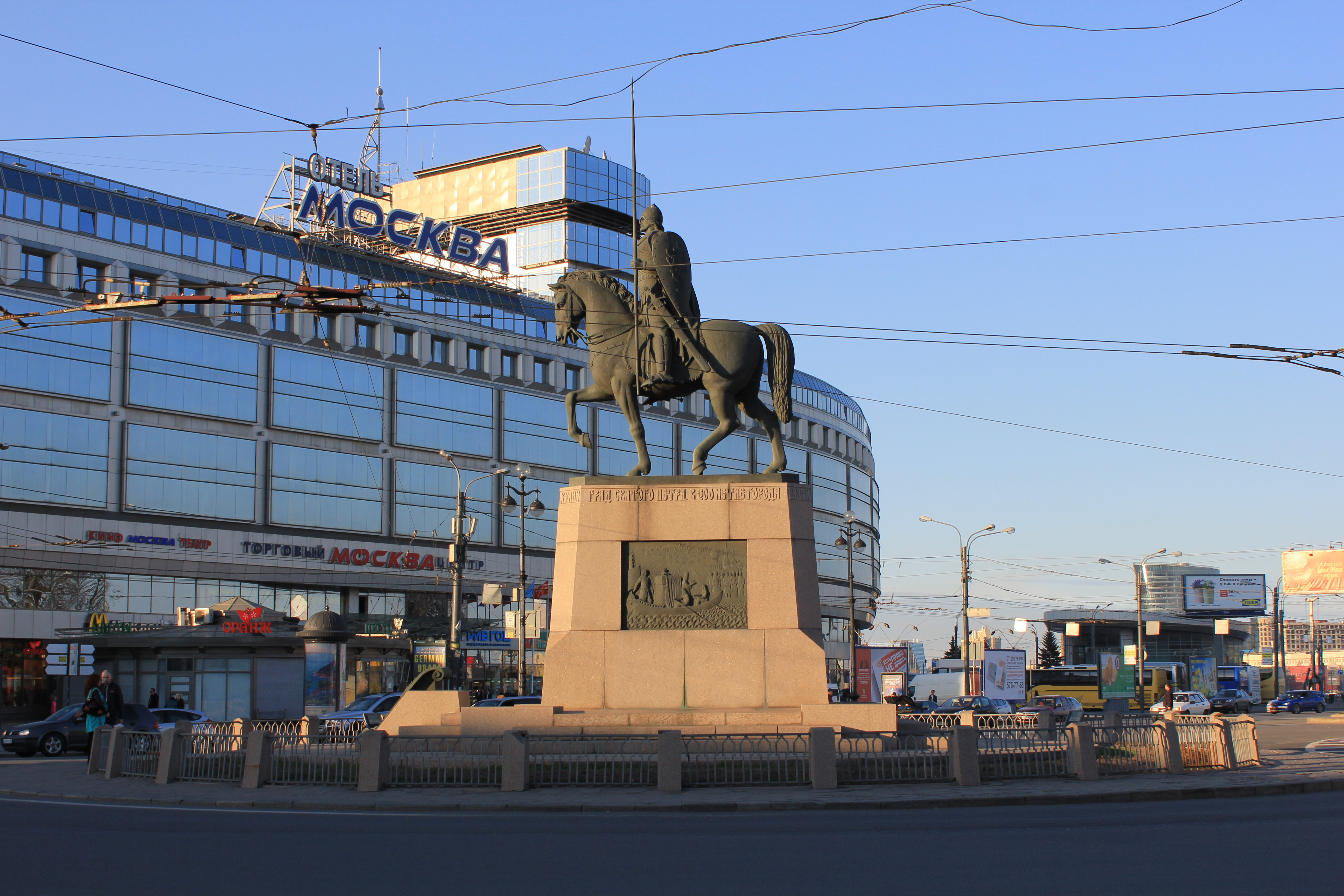 Tsentralny District, St Petersburg, Russia